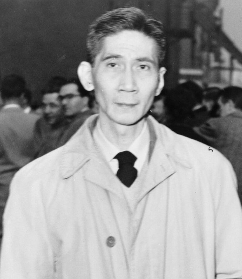 José García Villa, full-length photograph, on street outside St. Luke's Chapel / World Telegram & Sun photo by Walter Albertin.